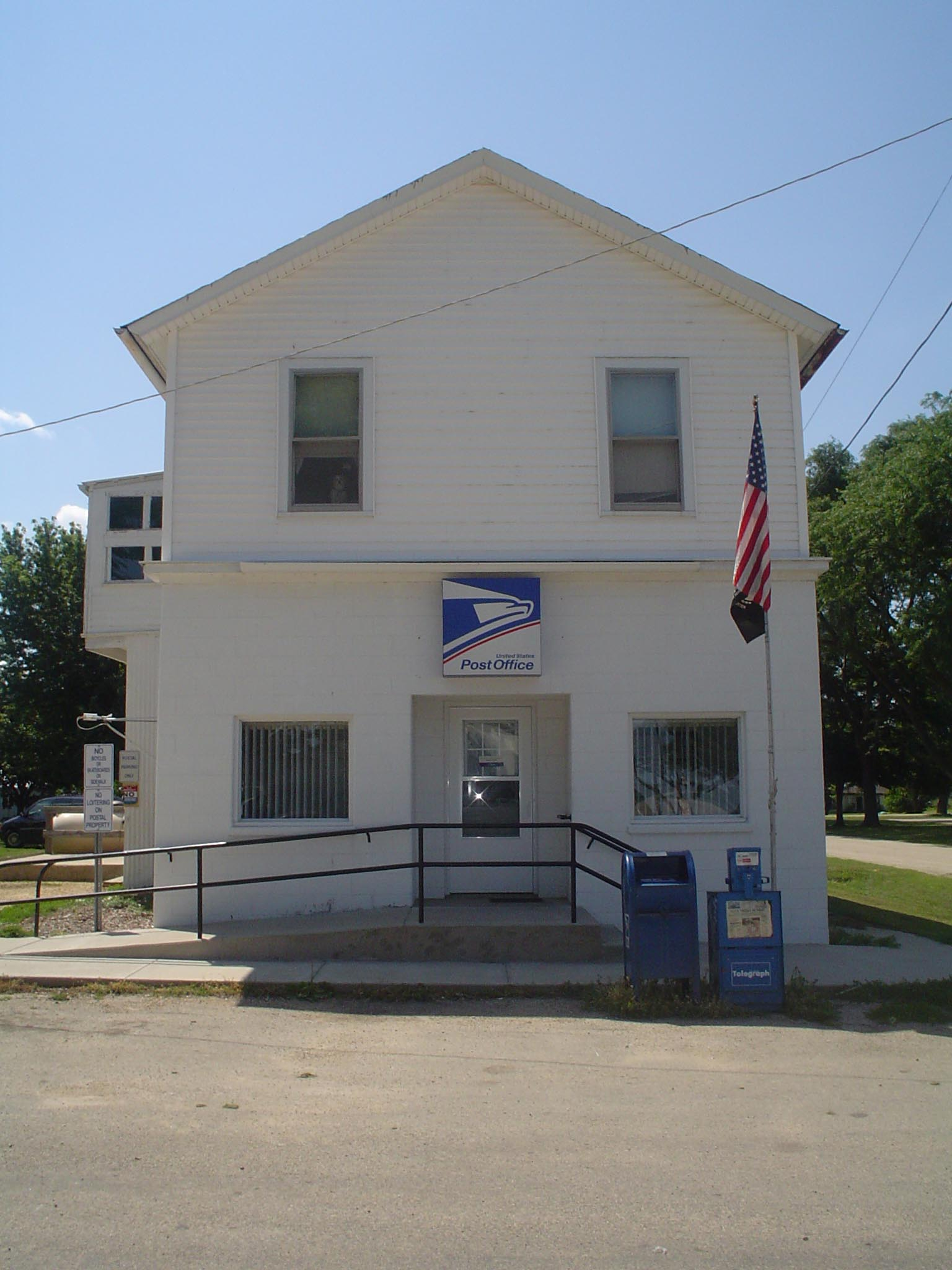 Post office in Chana, Illinois, USA.